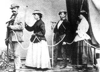 "The South Wales Squires", 1926, Mrs William Williams (Bessie Lewis-Lloyd), Miss Emmeline Lewis-Lloyd, Guide and Jean Charlet